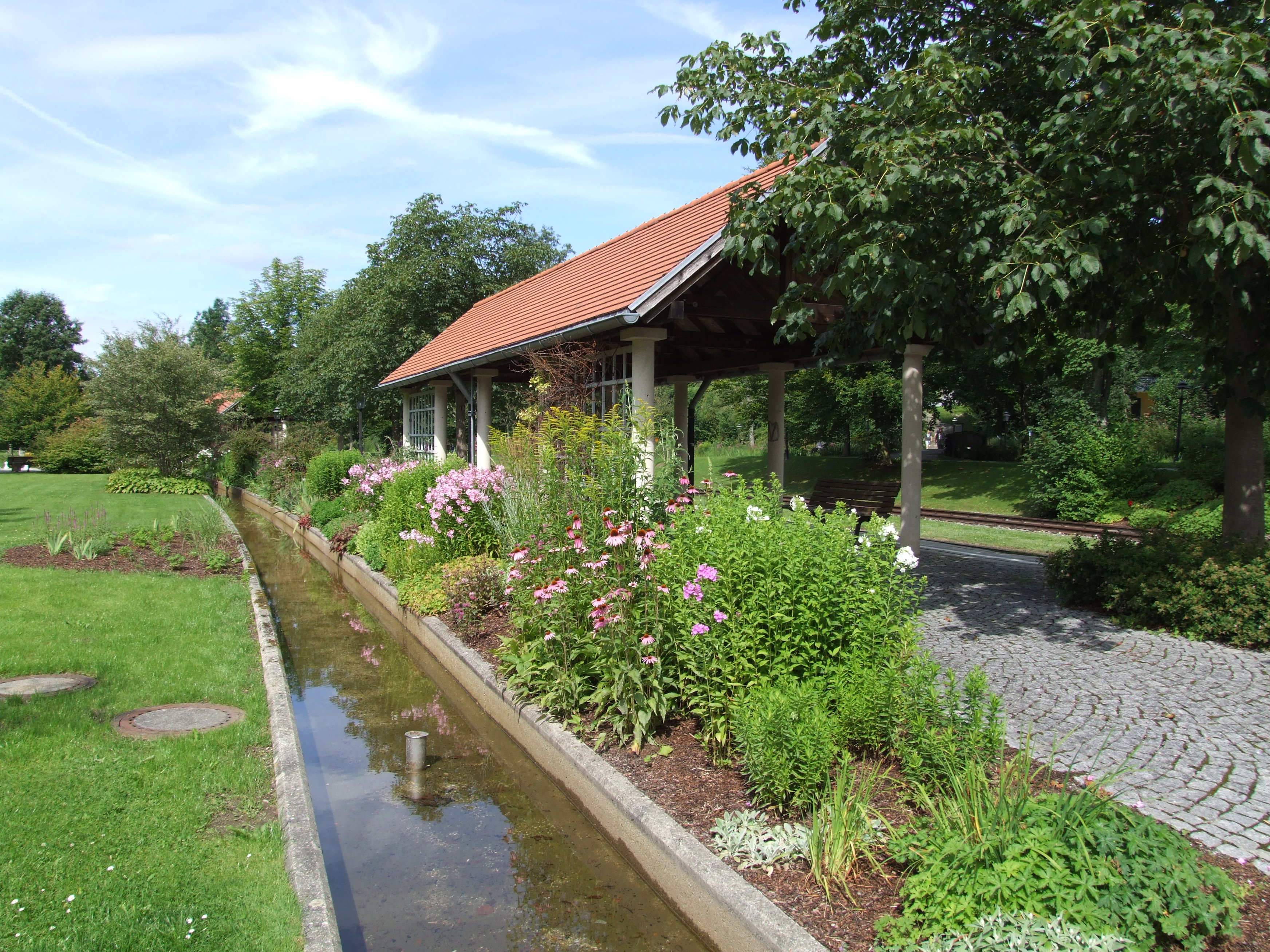 railroad station Bodenmais